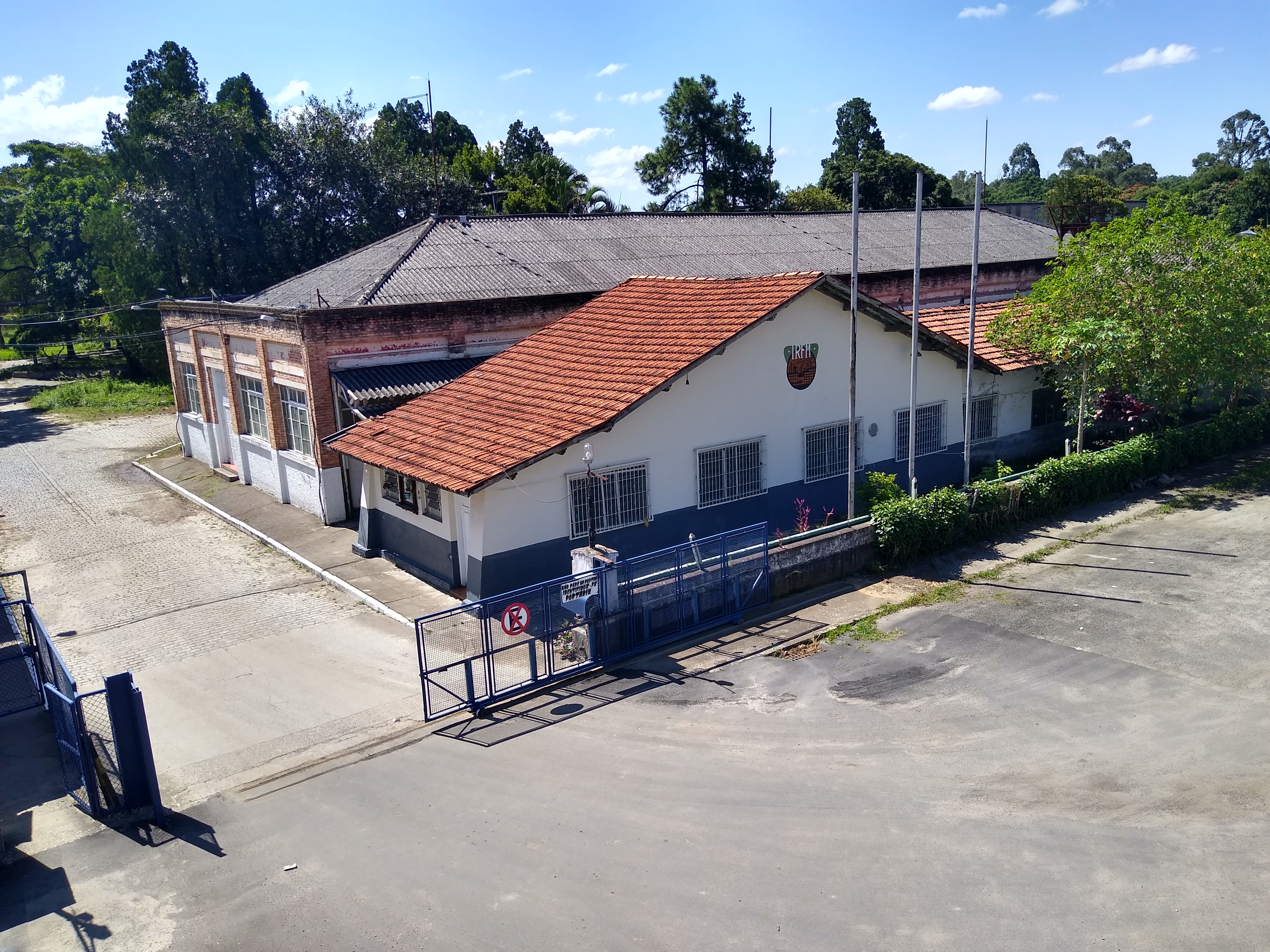 Instalações Família Matarazzo